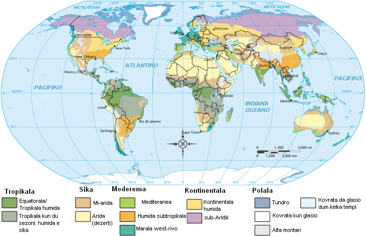 climate zones on a world map